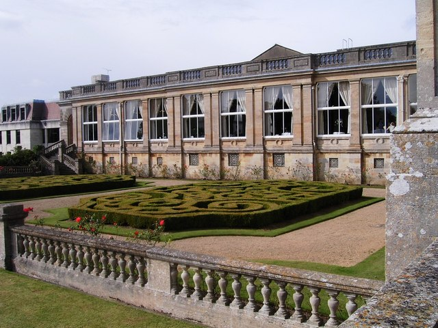 Heythrop Park Hotel